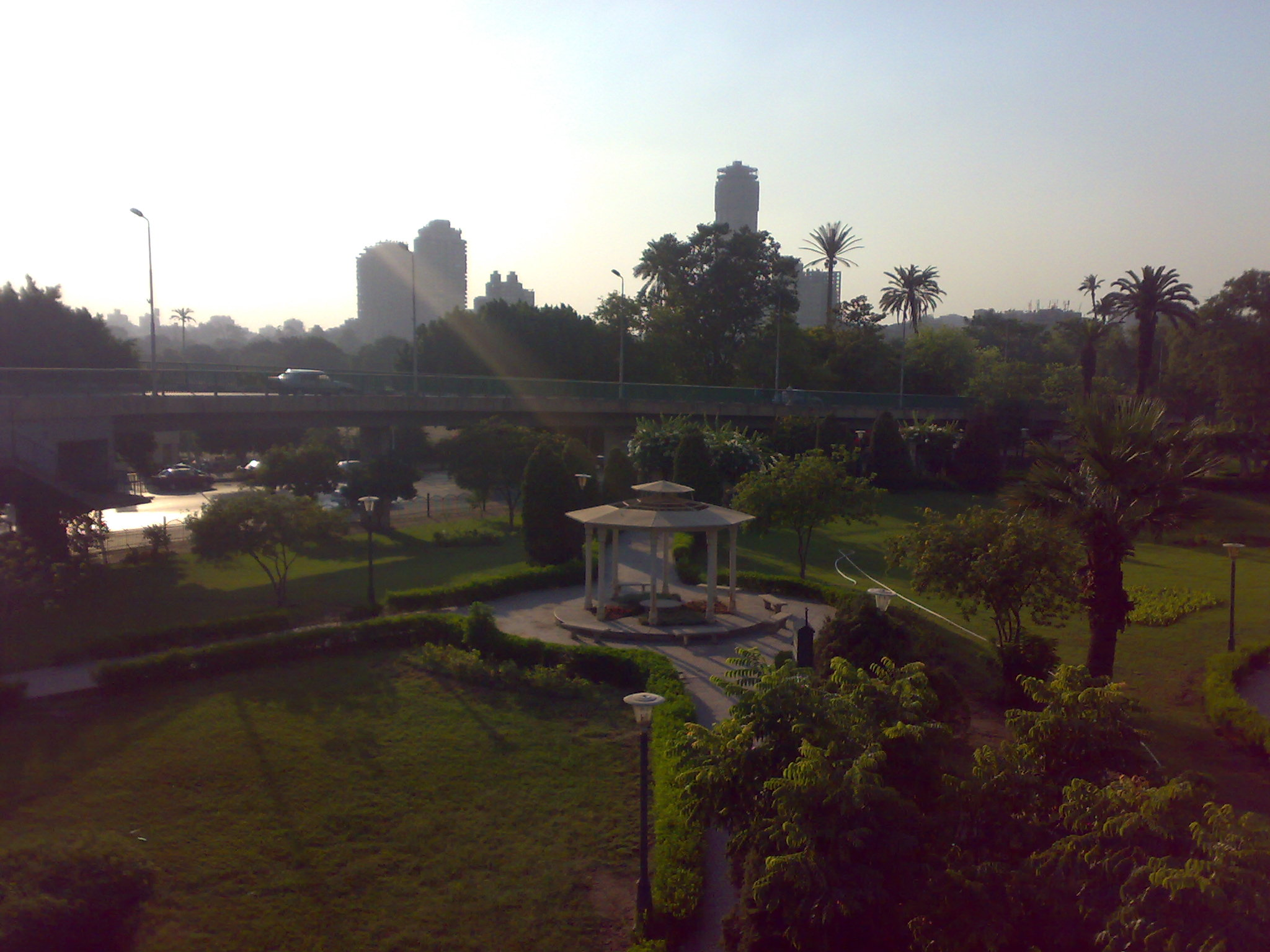 Maadi Park